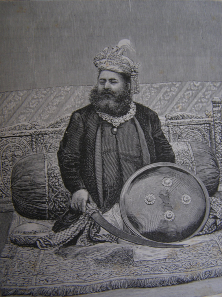 Maharaja Lakshmeshwar Singh's Portrait